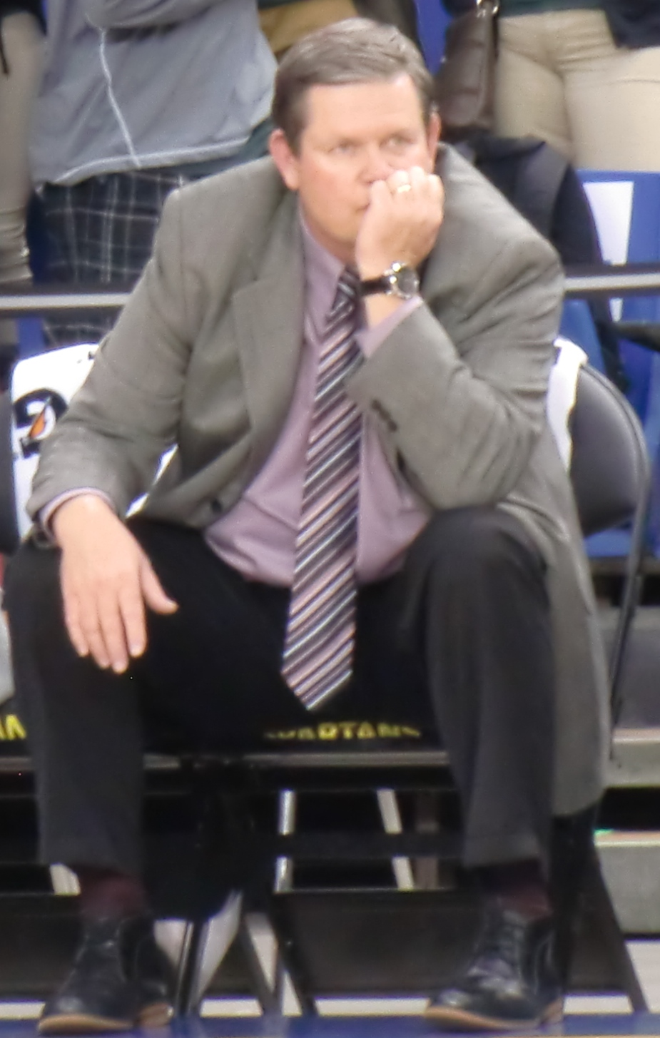 University of Wyoming women's basketball coach Joe Legerski sits on the bench during Wyoming's game at San Jose State on March 1, 2016 at the Event Center in San Jose, Calif.